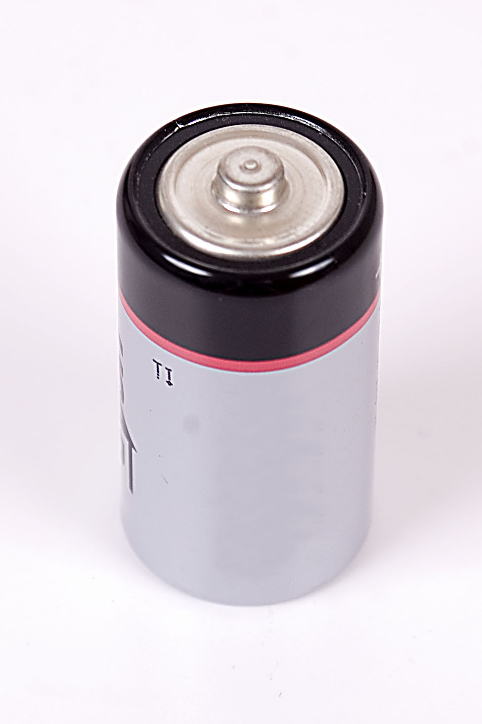 Battery Lady-Size